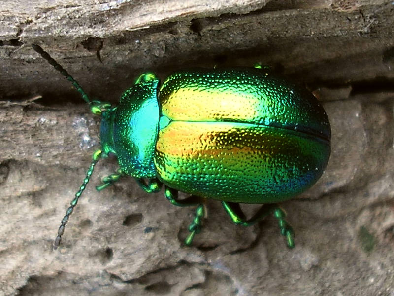 Series of one specimen of Chrysolina graminisLocation: Beuningen, Netherlands